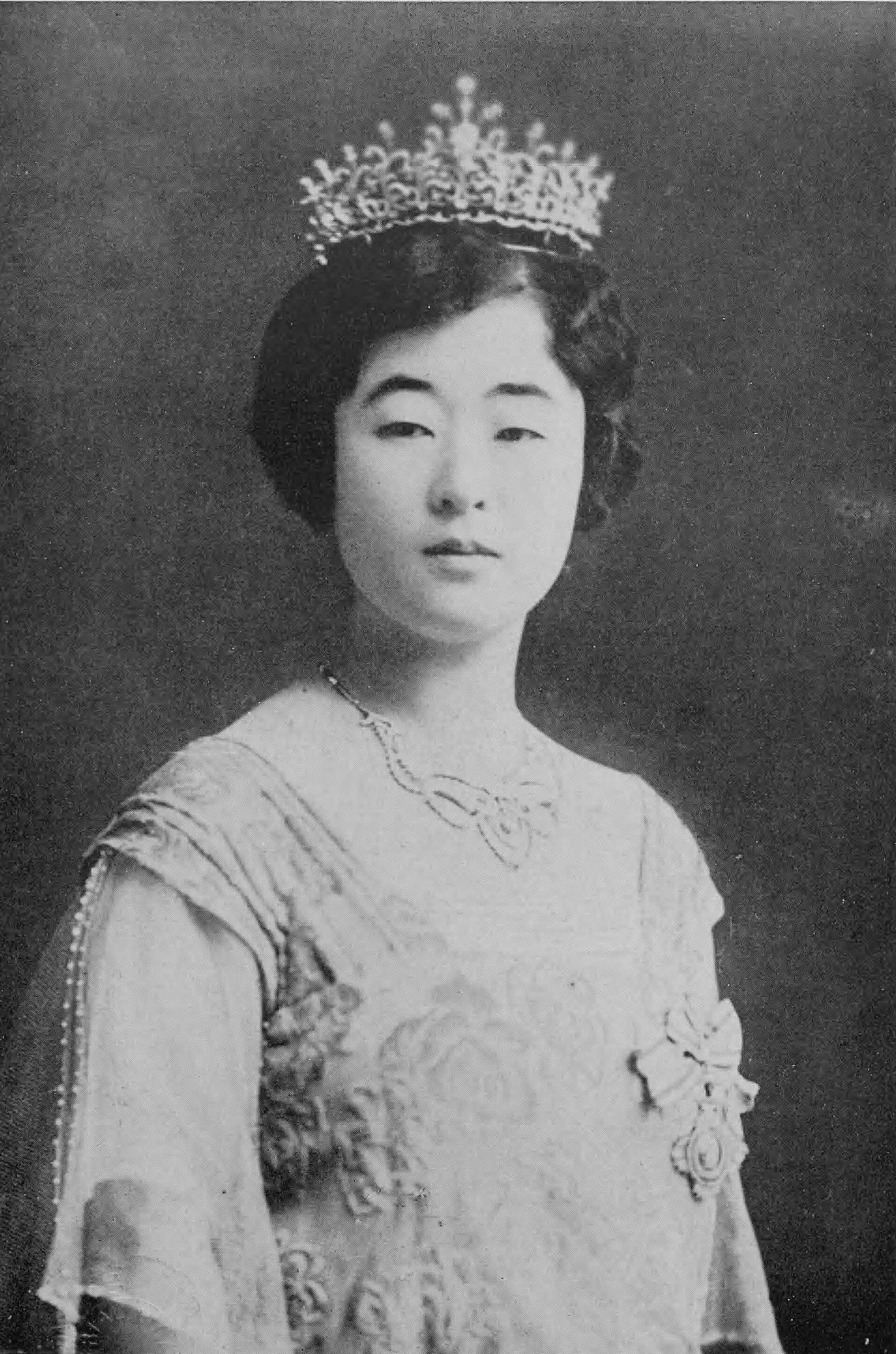 Yi Bangja